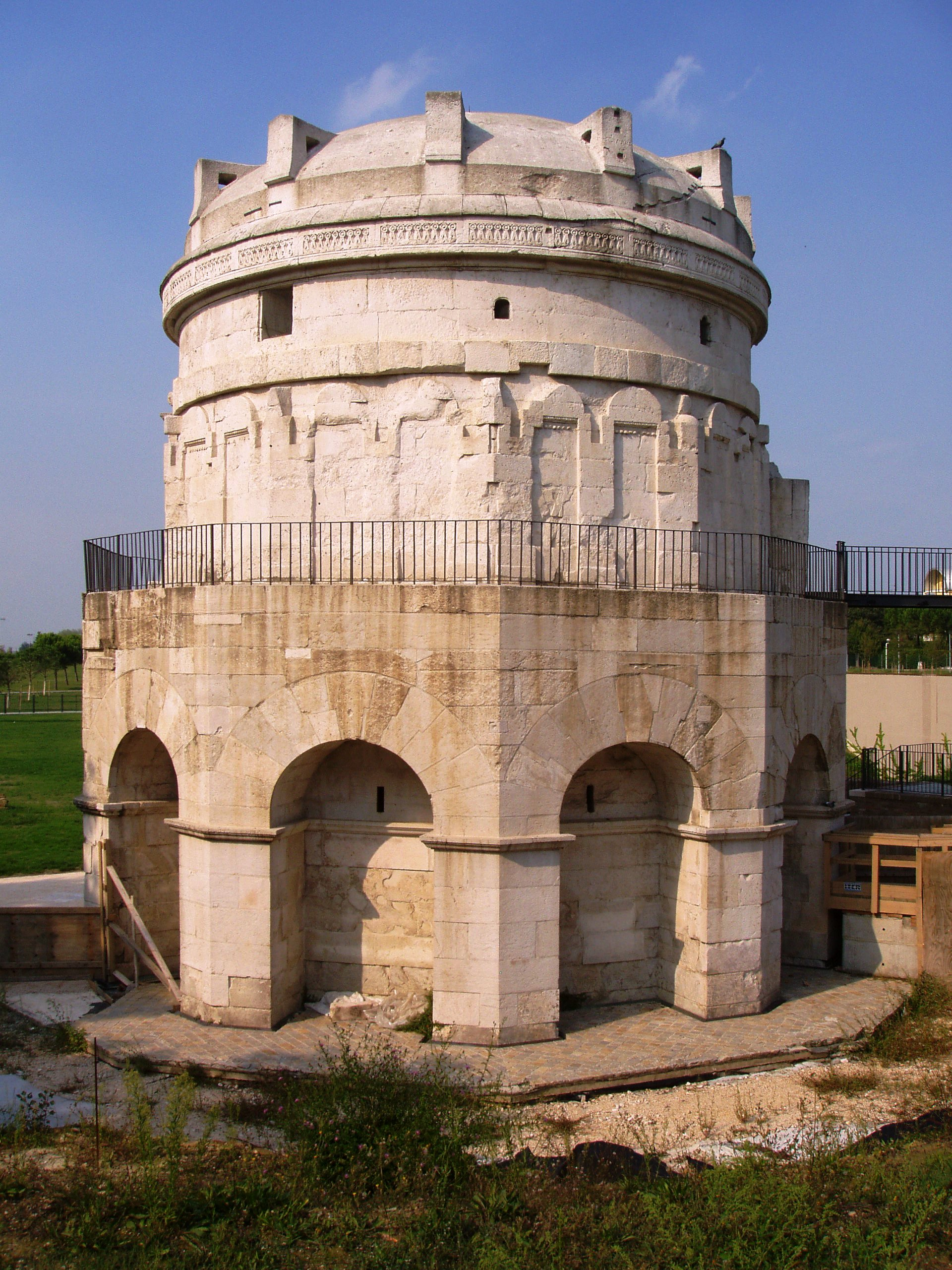 Teodorico Mausoleum (Theodoric's mausoleum) - Ravenna, Italy.